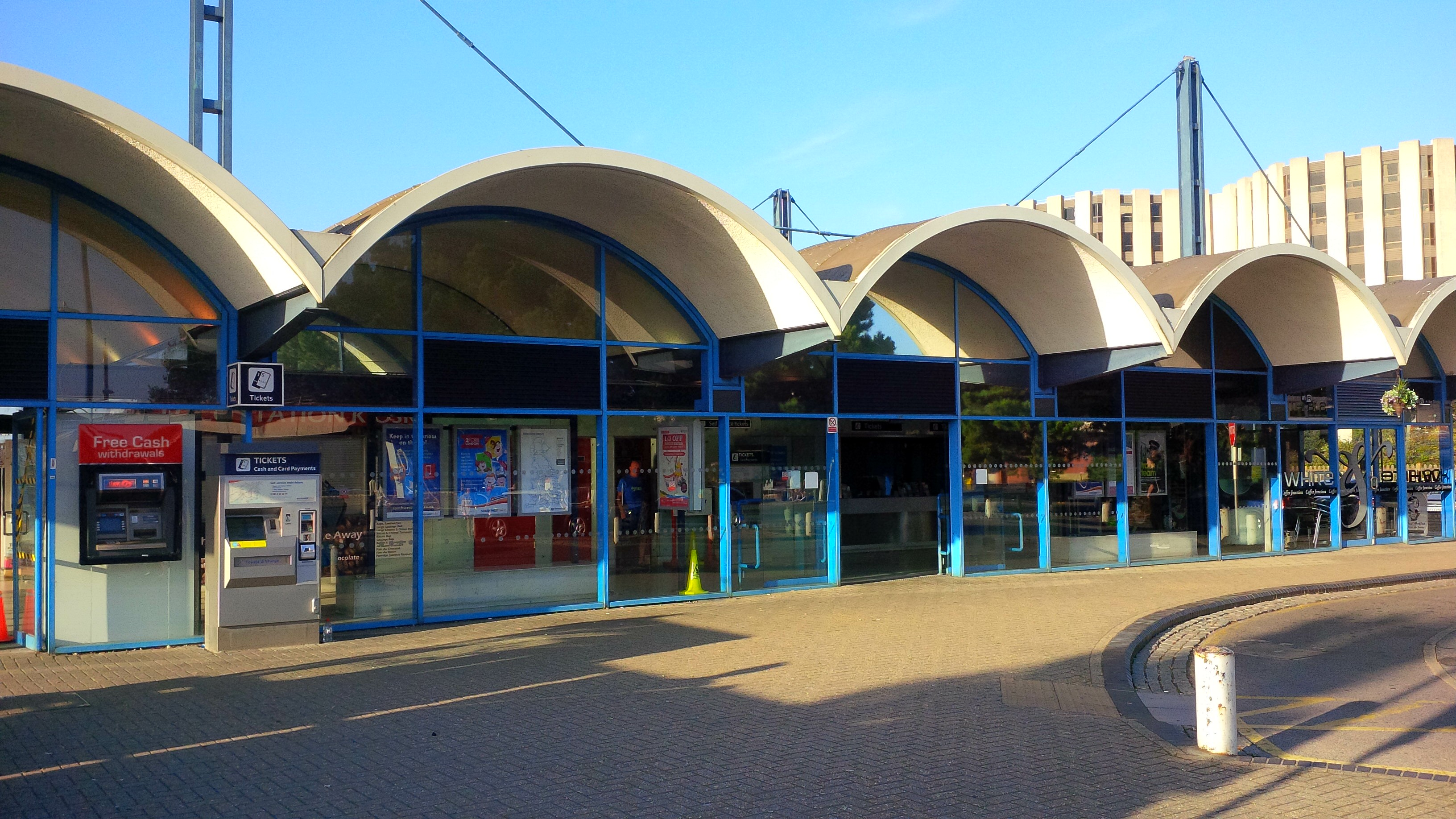 Exterior of the Poole railway station (August 2013).